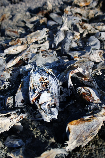 Dead fishes seam the western shore of Salton Sea, CA - right at the "beach" of Salton City. A strong smell and a large group of flies was present as well.